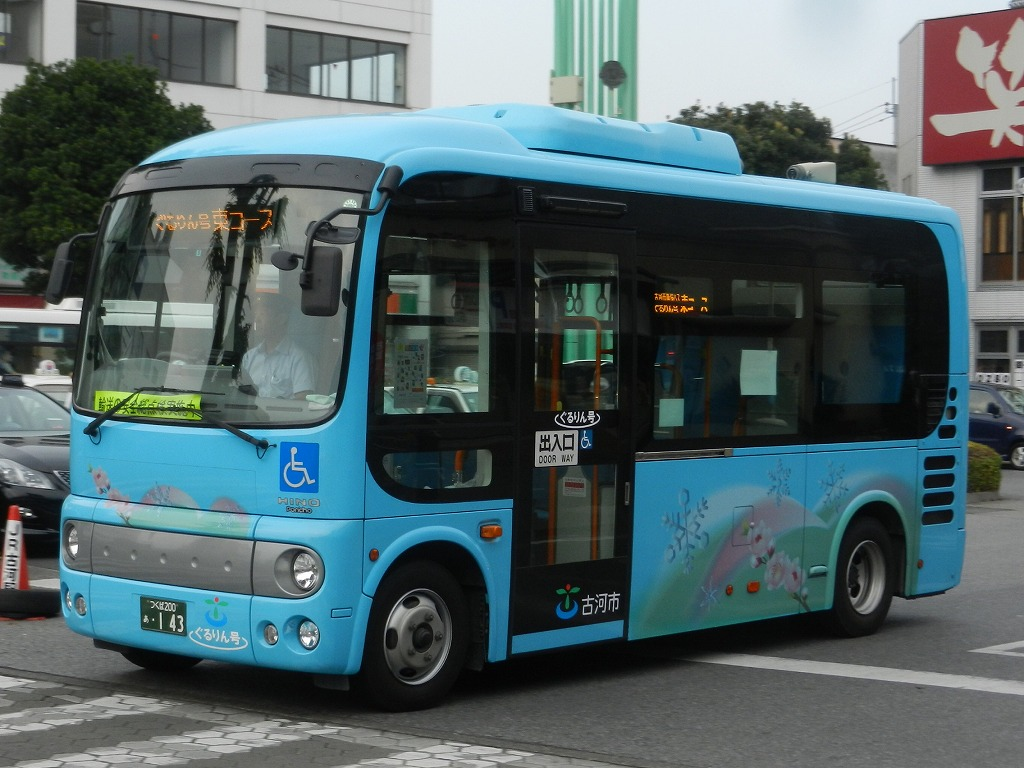 Ibakyu bus Hino Poncho (for Koga city "Gururin-go")